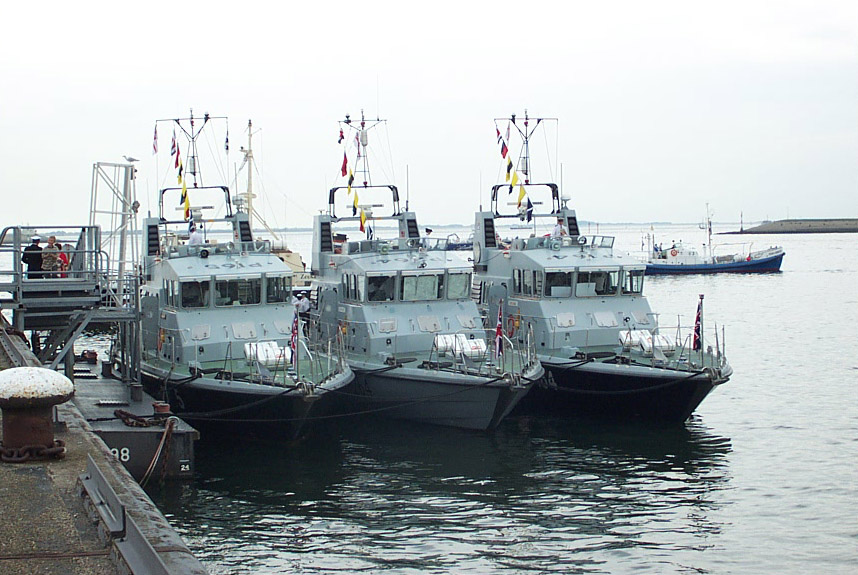 (from left to right) HMS Example, HMS Archer and HMS Explorer at Den Helder Navy Days, 2002.